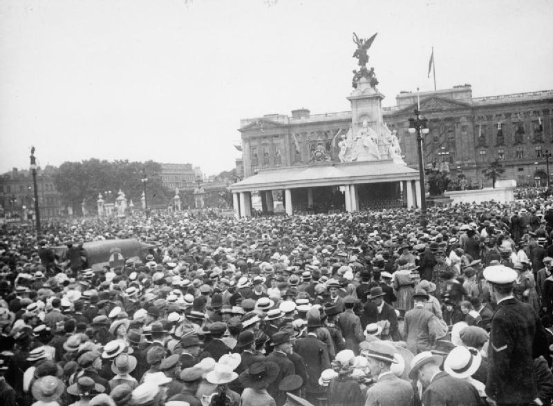 Peace Day Celebrations. Scene outside Buckingham Palace after the procession.